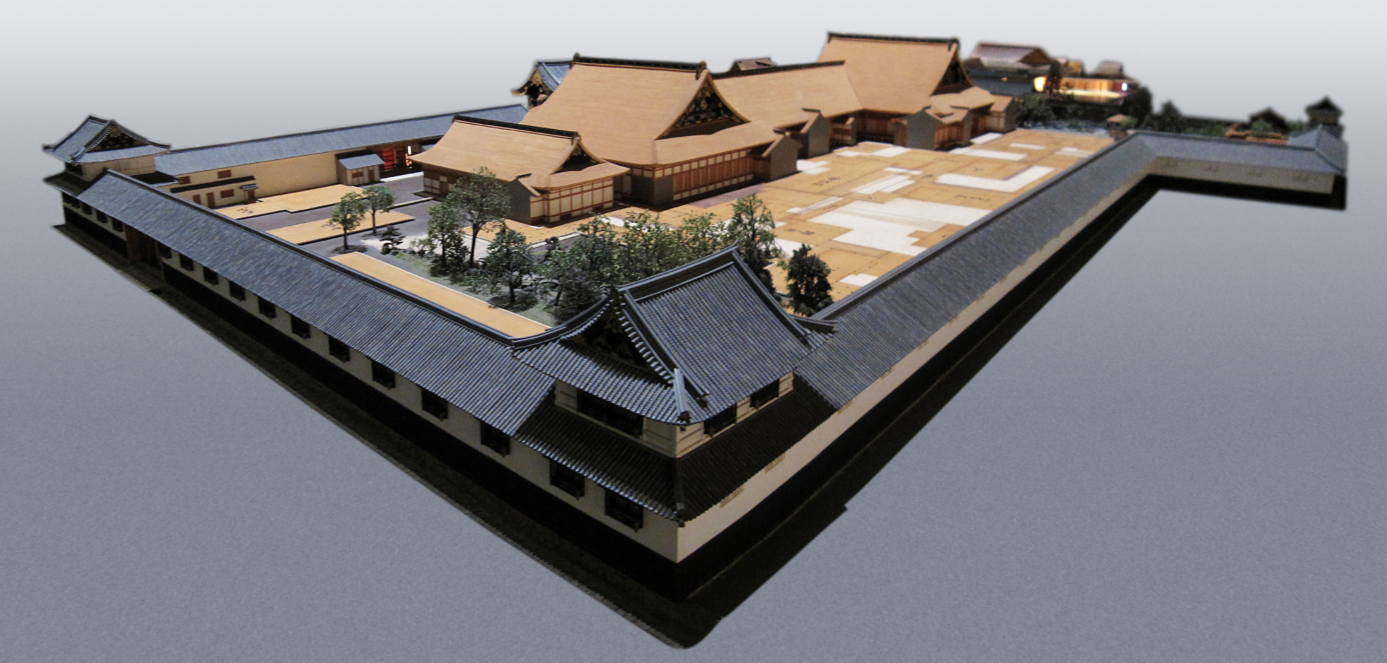 1:30 architectural model of the residence of the daimyo Matsudaira Tadamasa, at the Edo-Tokyo Museum. Some of the minor structures have been left out in the model in order to highlight the main buildings in the back. The minor buildings included servants quarters, storage, stables, etc. and their position is indicated by the beige layout on the white ground.